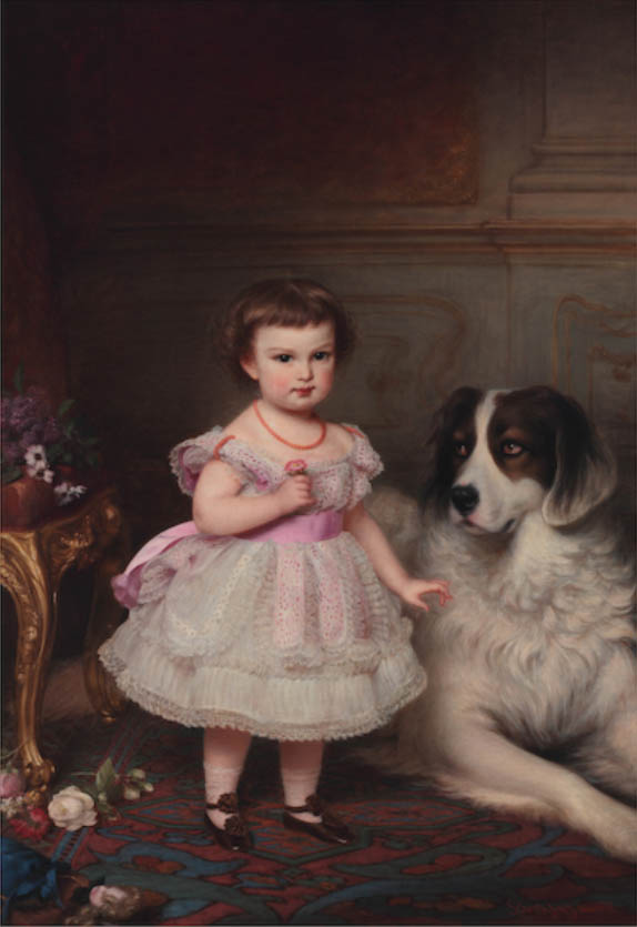 * Archduchesse Maria Valeria of Austria (daughter of Emperor Franz Joseph + Empress Elisabeth), in child agelabel QS:Len,"* Archduchesse Maria Valeria of Austria (daughter of Emperor Franz Joseph + Empress Elisabeth), in child age"